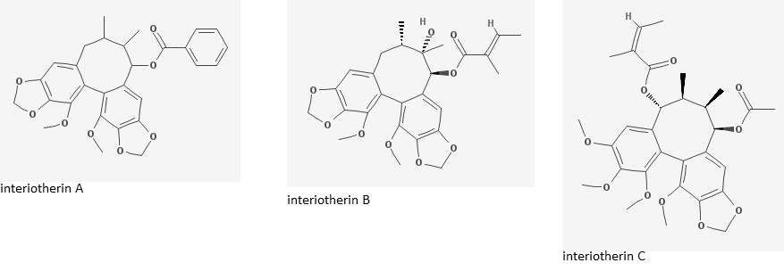 Interiotherins A-C